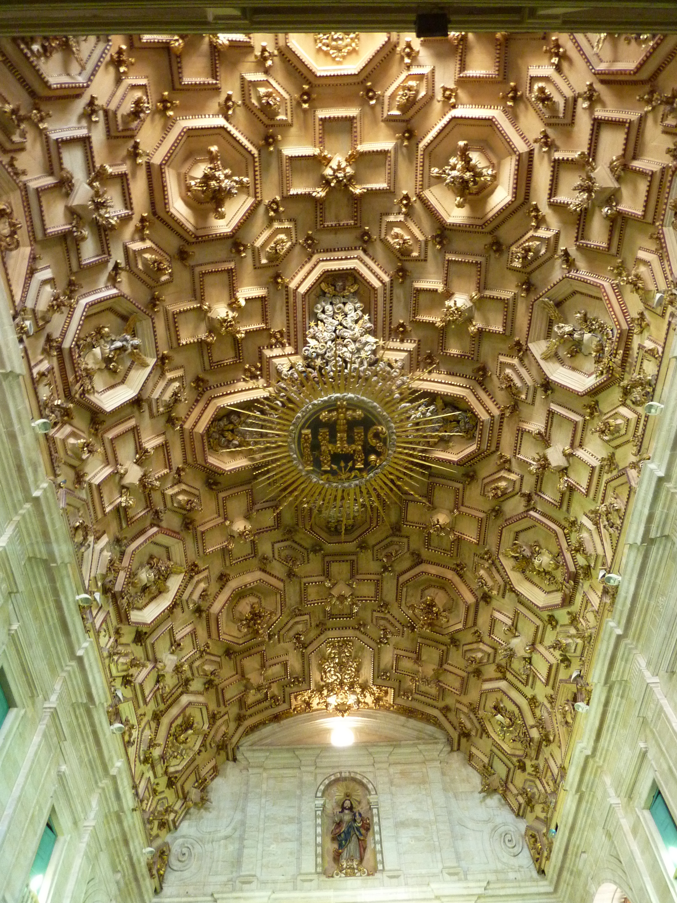 Ceiling of the former Jesuit Church (now Cathedral) of Salvador, Bahia, Brazil